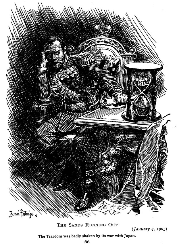 Russo-Japanese War- A scan of a cartoon from The New Punch Library volume 1, page 44, published in London in 1932. First published in 1905. The hour-glass represents Russia's prestige running out due to the nation's defeat in the war.